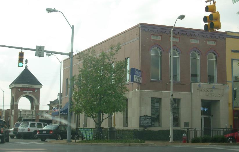 Rivers Langley